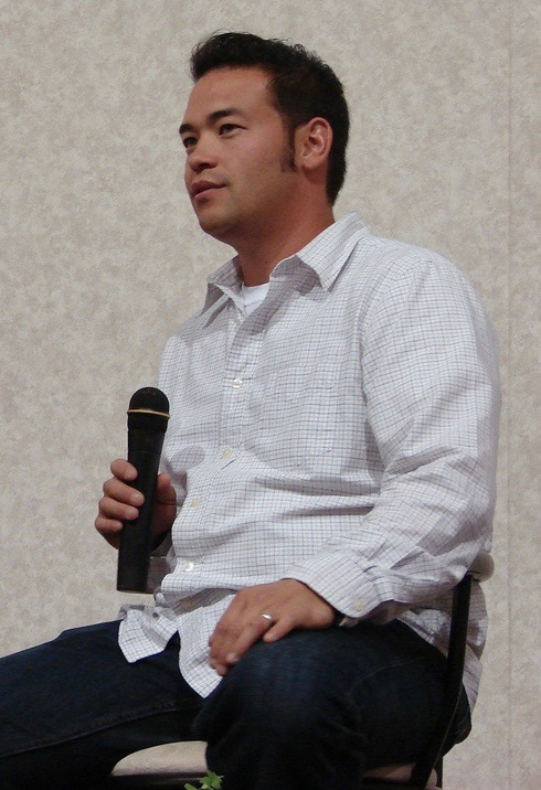 Jon Gosselin